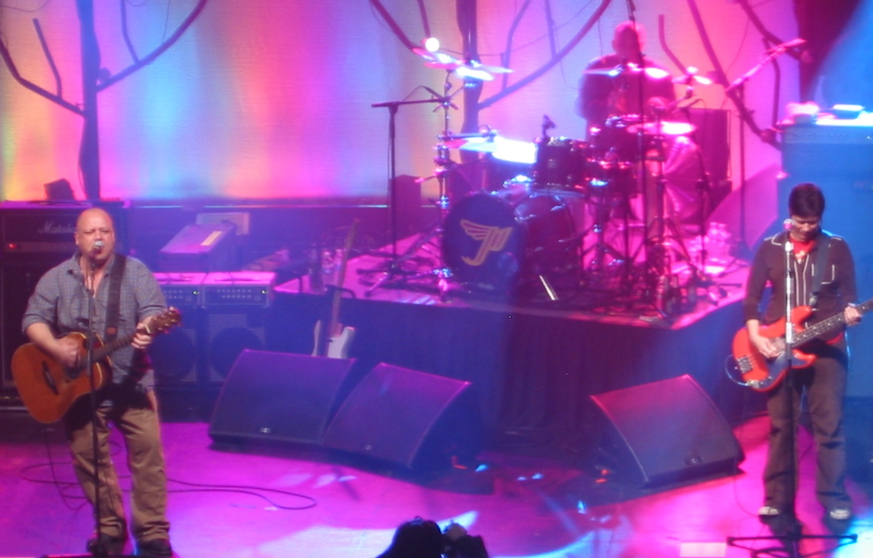 Pixies Live Kansas City 2004